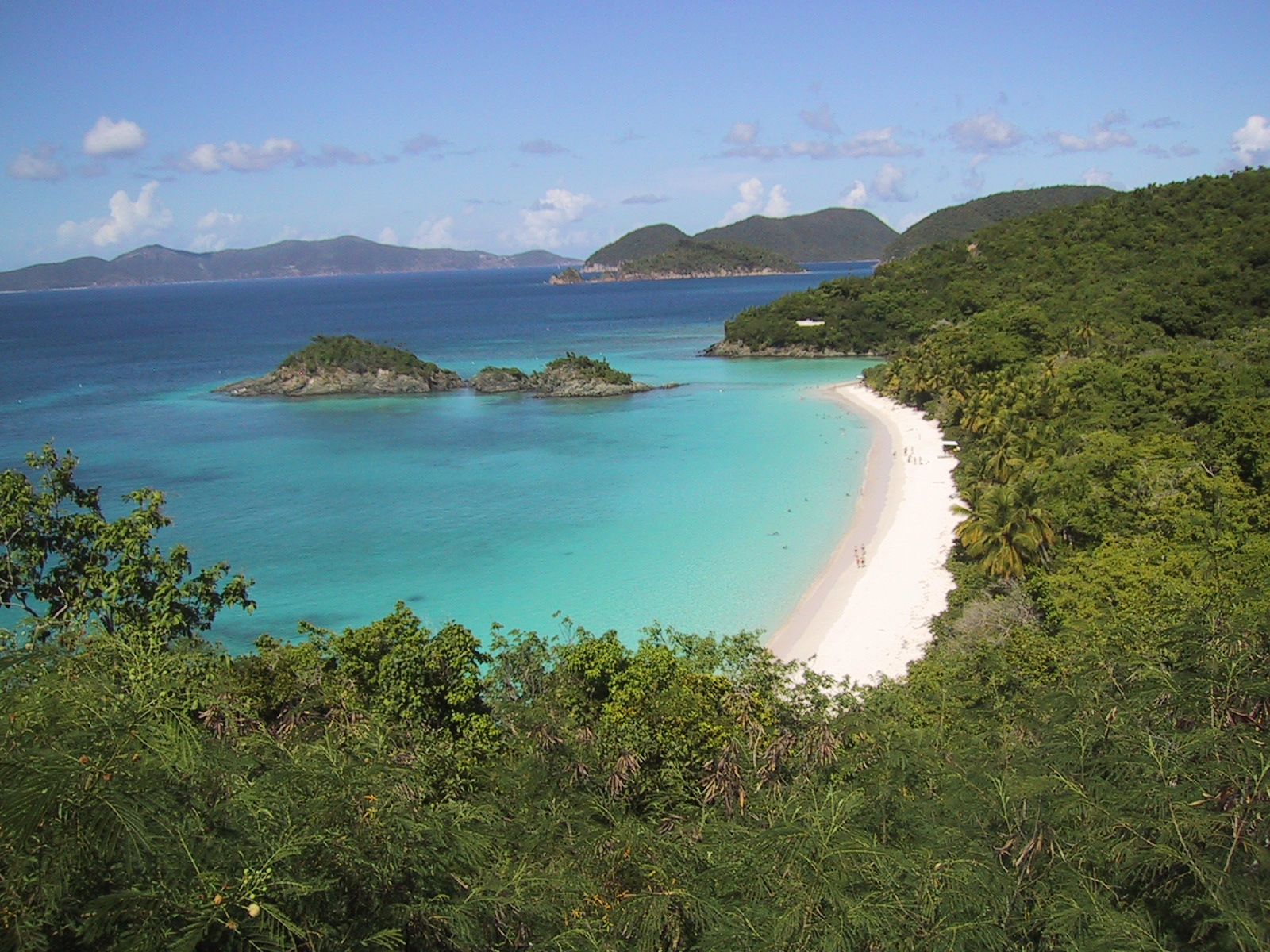 Trunk Bay — on St. John island and in Virgin Islands National Park, U.S. Virgin Islands